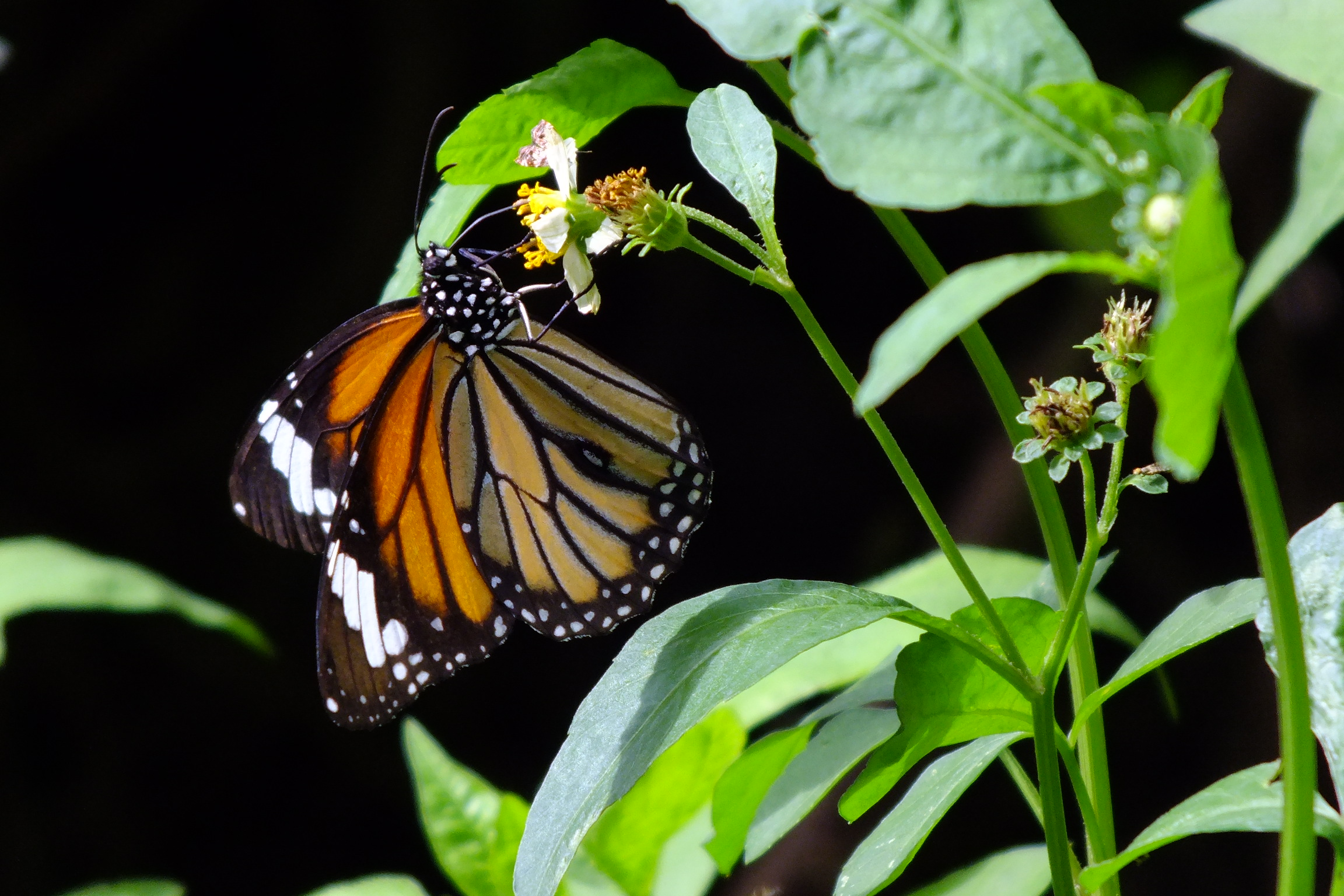 Danaus genutia, at Pemuchi-Beach, Hateruma Island, Okinawa Prefecture, Japan